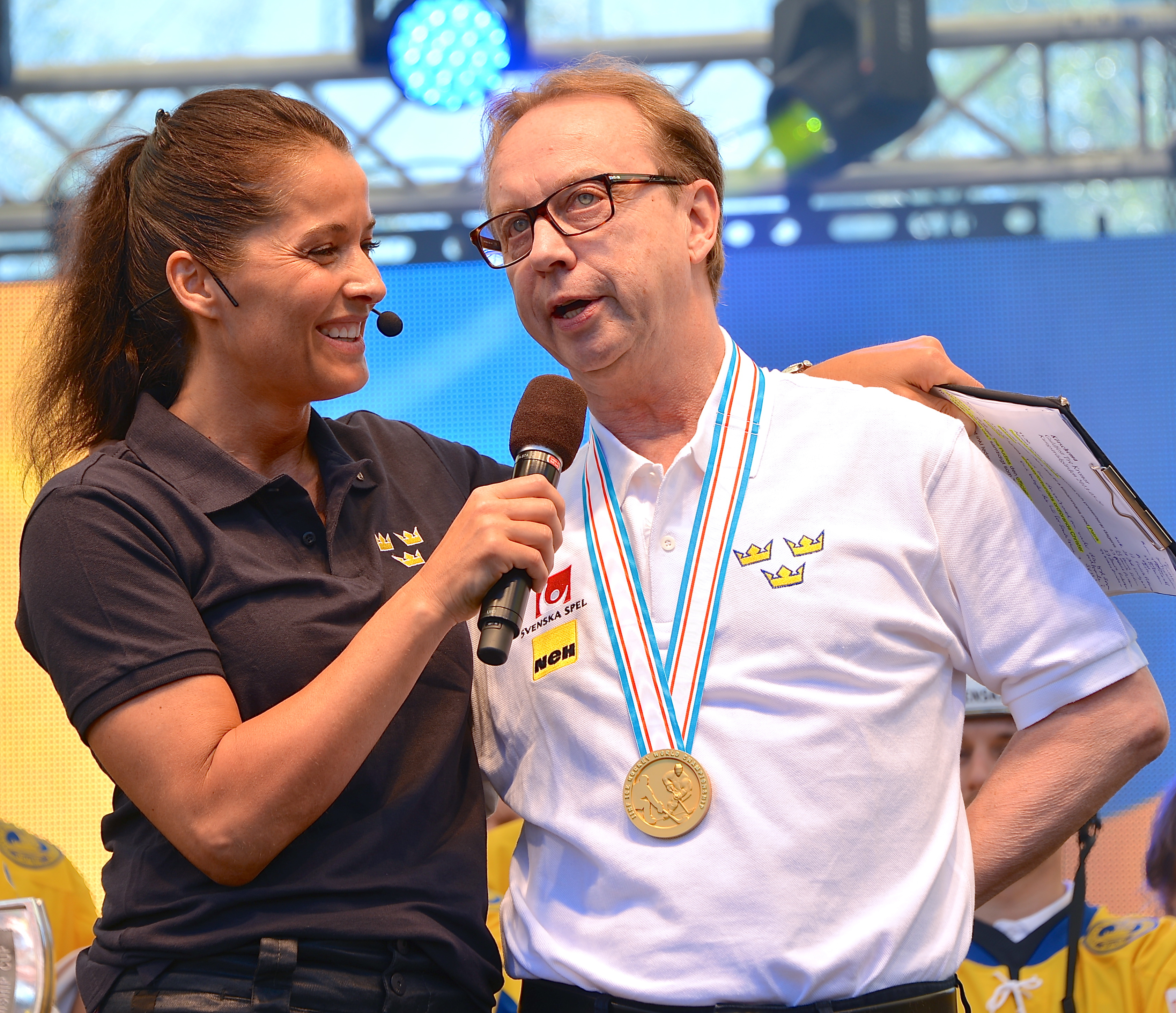 Pär Mårts interviewed by Agneta Sjödin in Kungsträdgården in Stockholm on May 20th after winning the IIHF World Championship 2013.